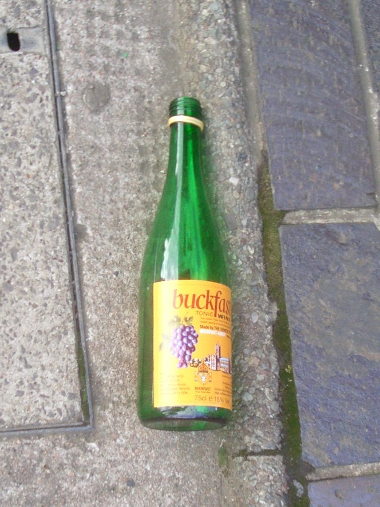 Photo of an empty bottle of Buckfast Tonic Wine (Bucky) in a Glasgow street. Taken by User:Edward.